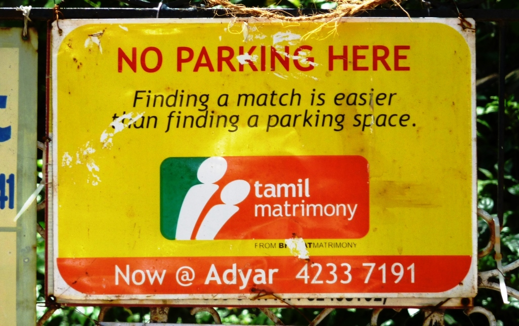 I took this photo myself on a trip to Chennai in 2010.